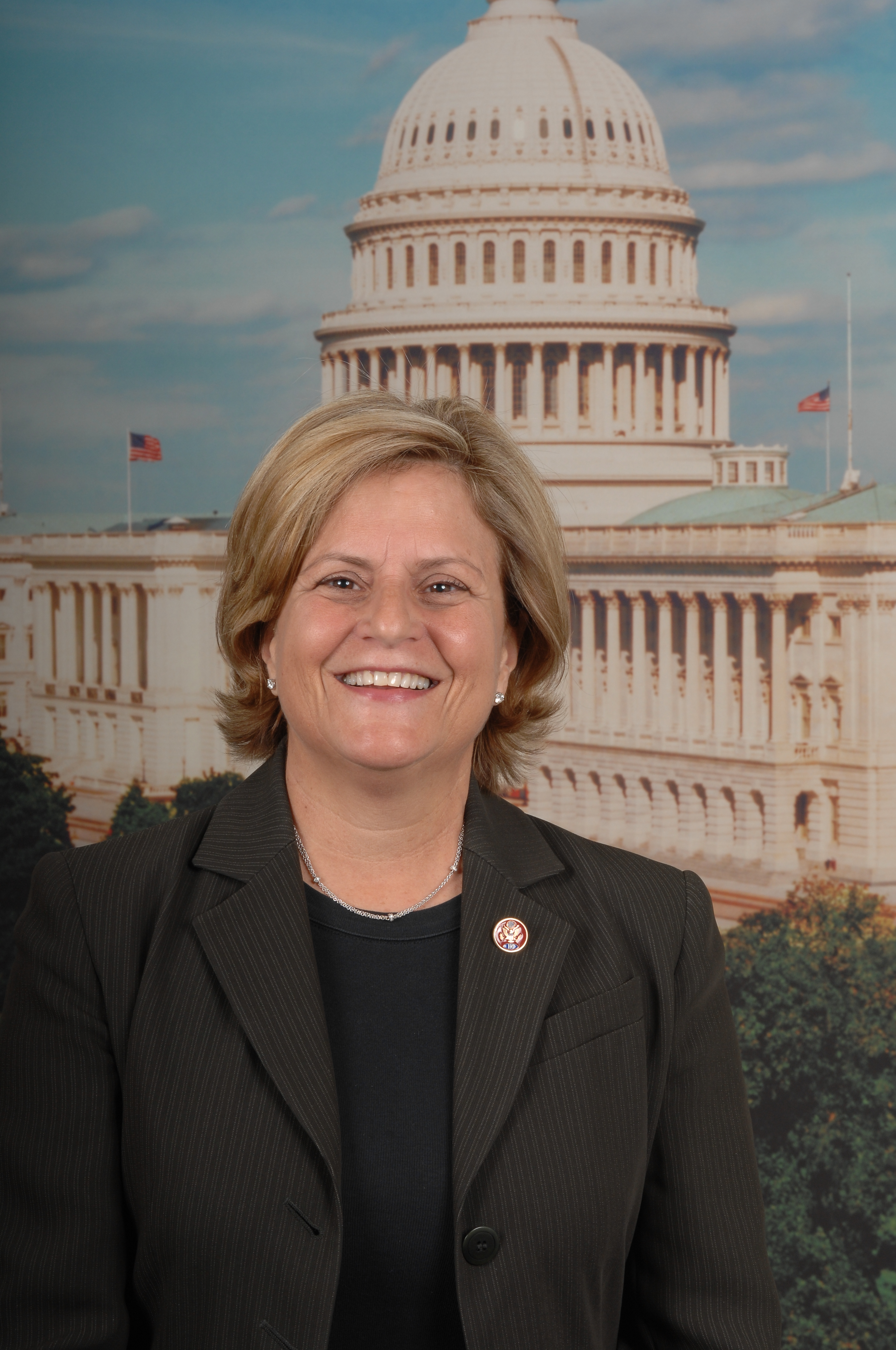 Official House of Representatives portrait of Ileana Ros-Lehtinen of Florida